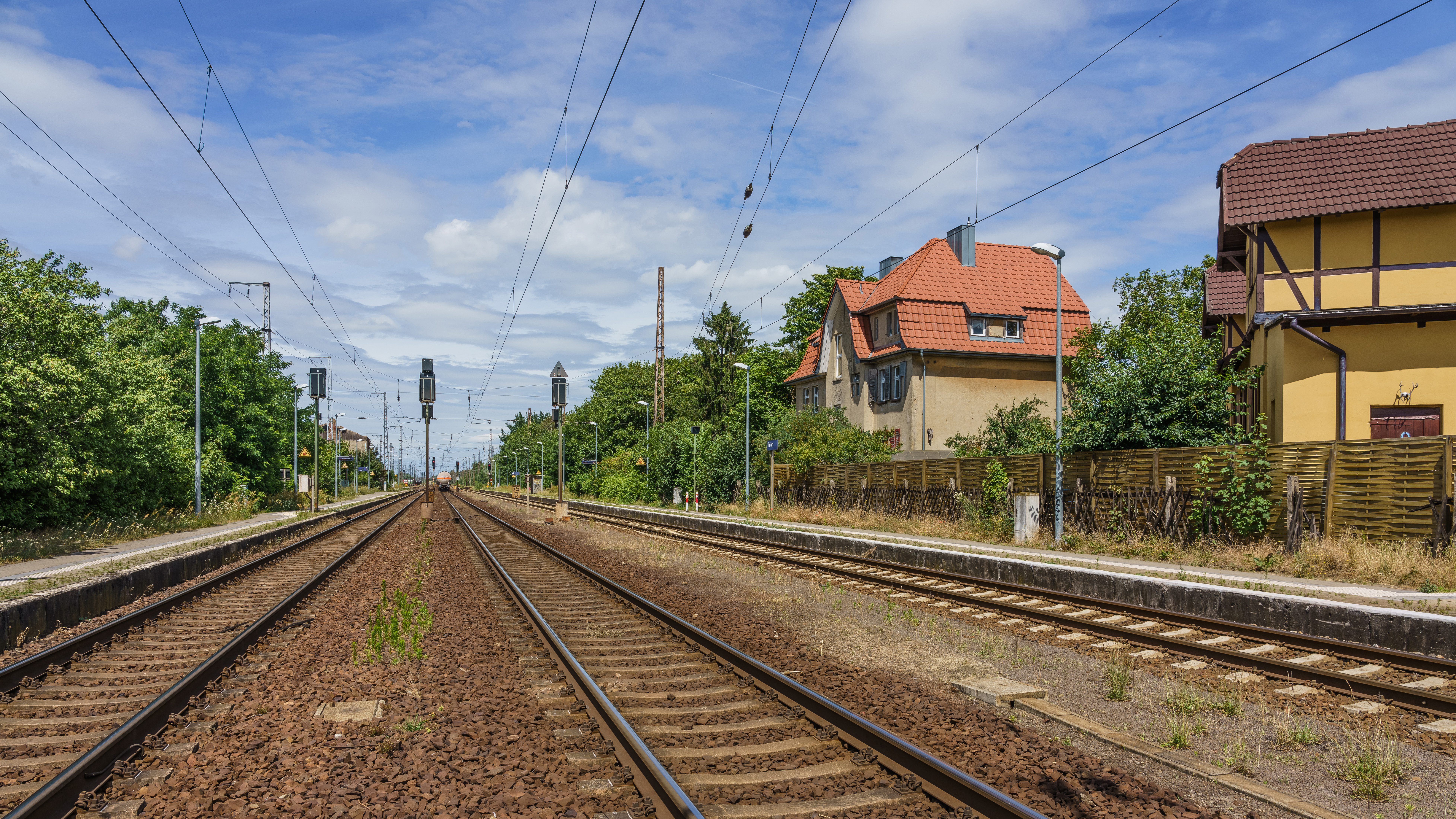 Priort railway station near Potsdam, Germany